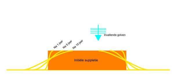 Changes of a rectangular nourishment due to perpendicular waves, as can be computed with a one-line model